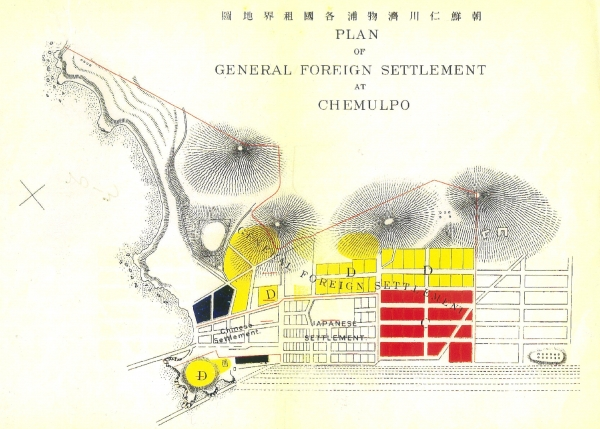 Plane of general foriegn settement at chemulpo made at 1890s